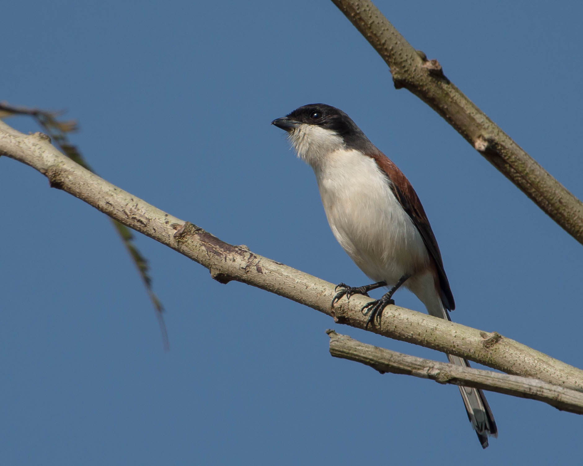 Burmese Shrike (Lanius collurioides) at Doi Lang, Chiang Mai Thailand